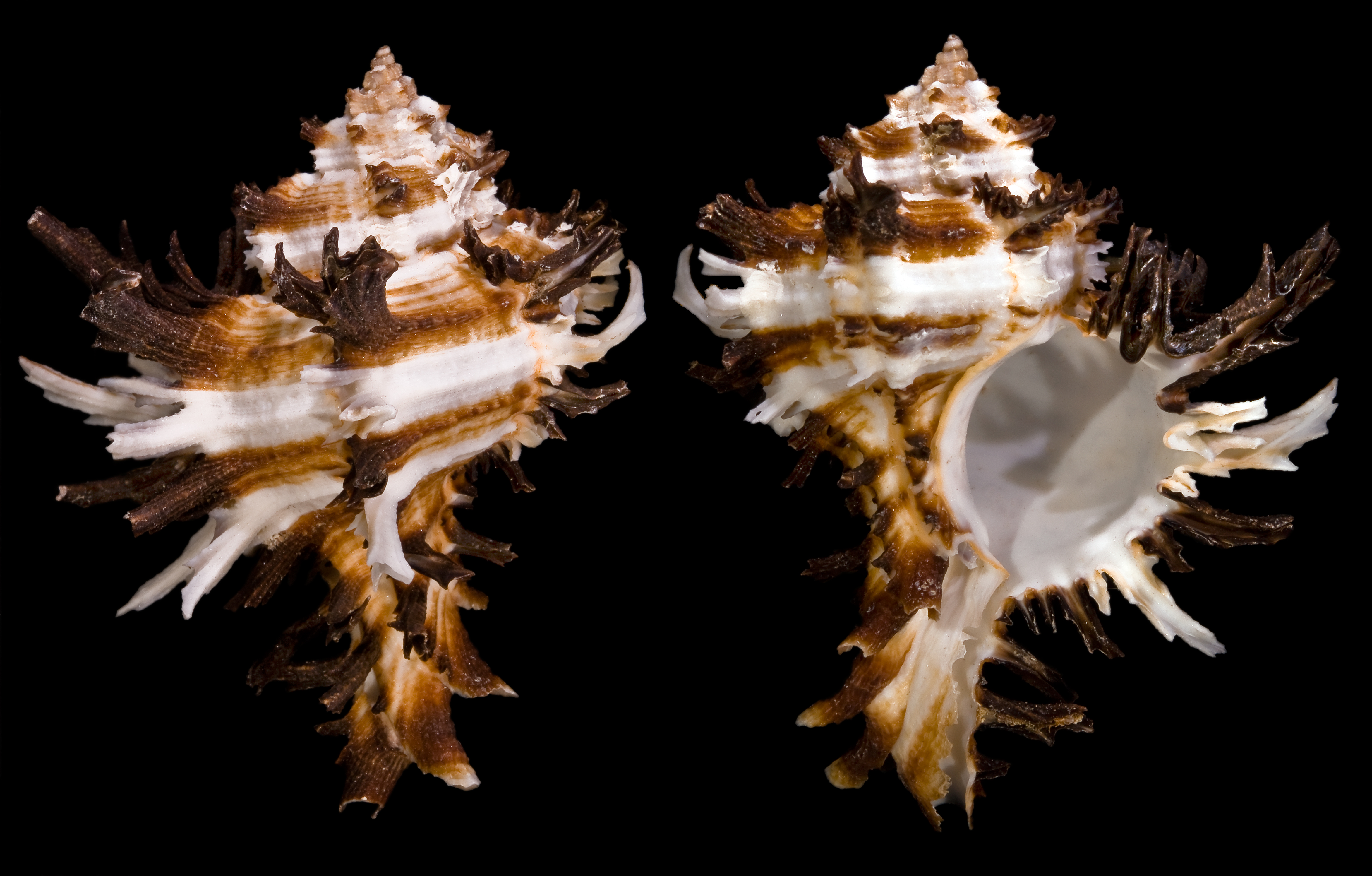 Hexaplex cichoreum Locality : Cagayan island, Philippines Size : 7.6cm